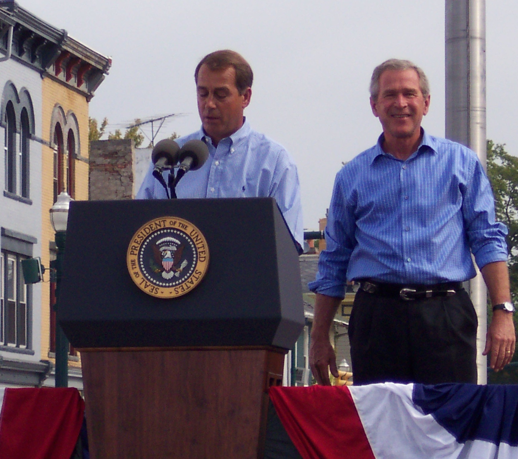 John Boehner and President Bush in Troy, Ohio for the 2004 Presidential Campaign on September 15, 2003